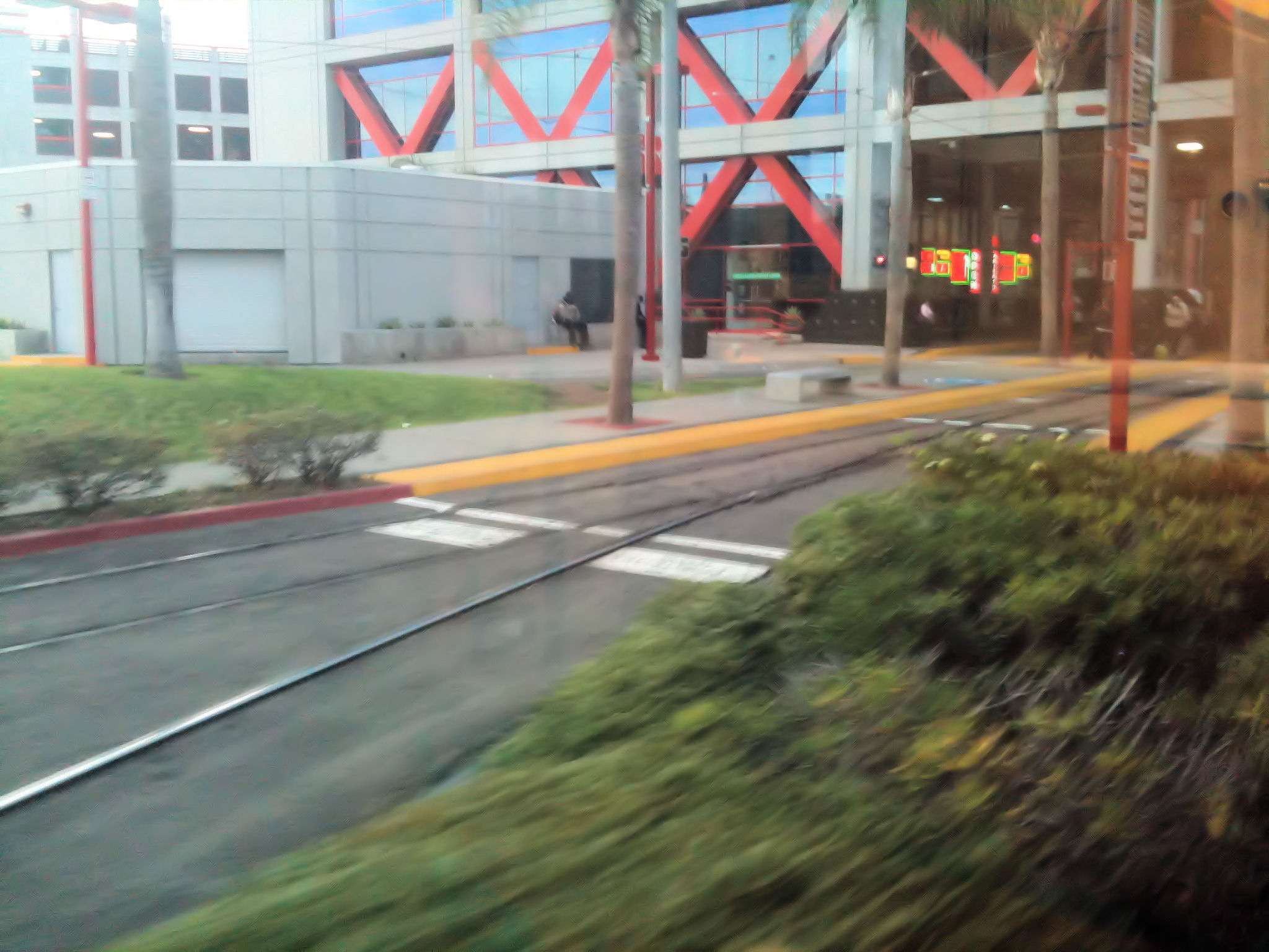 12th & Imperial Transit Center in San Diego, CA